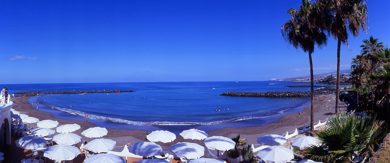 Troya Beach, in Costa Adeje (South of Tenerife)